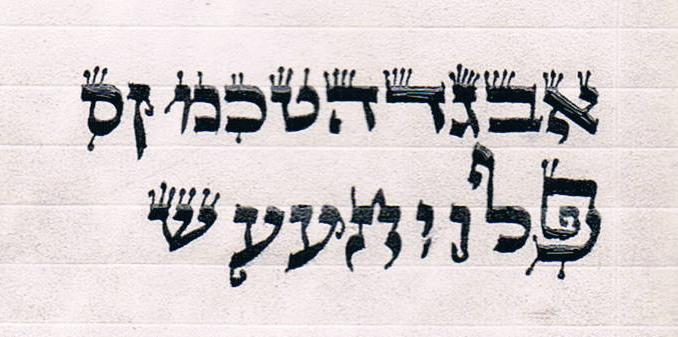 changed Hebrew letters